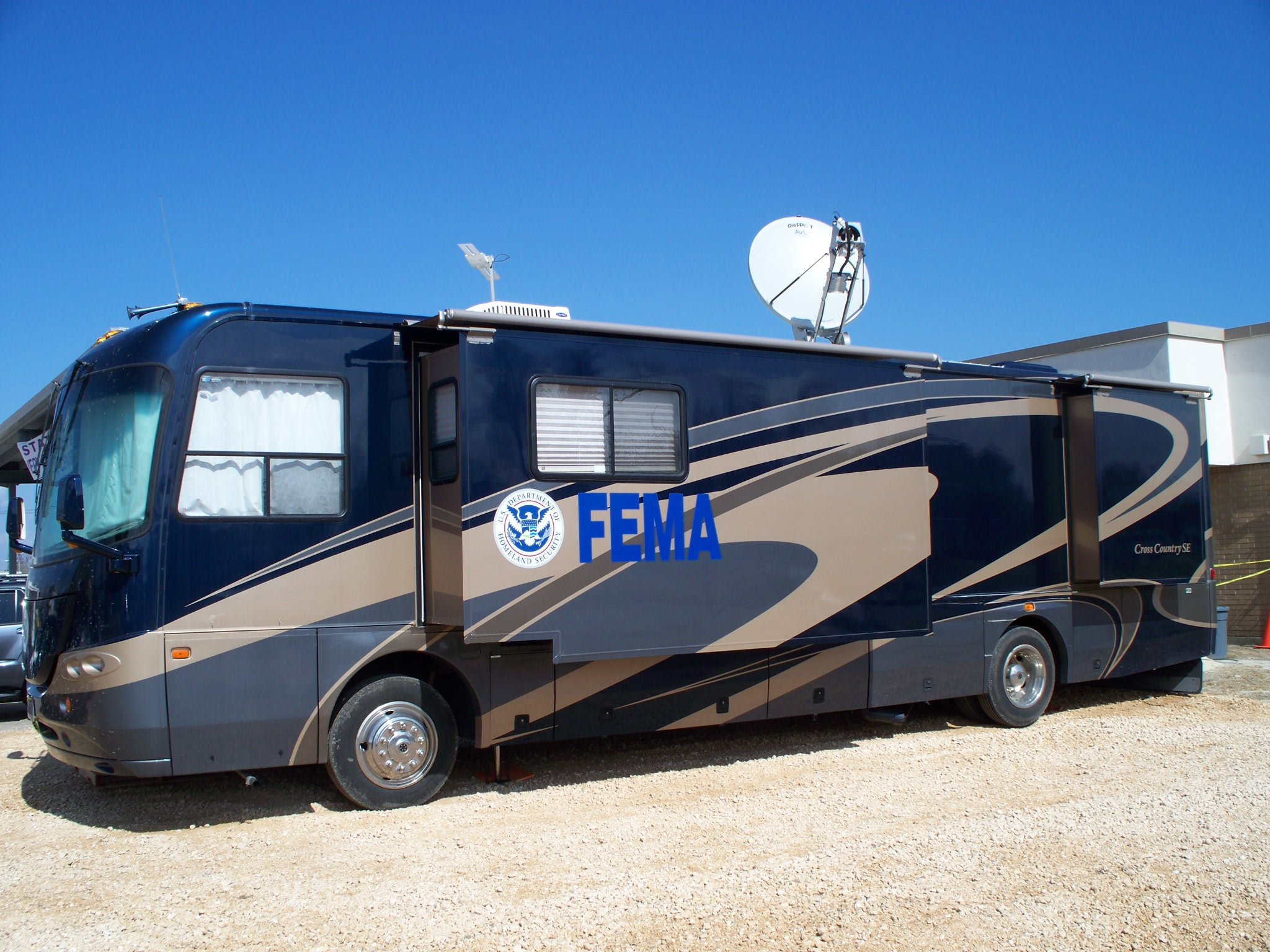 FEMA motor home used by personnel offering assistance in Sabine Pass, Texas after Hurricane Ike.